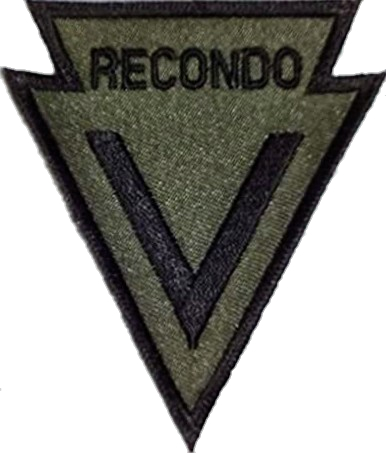 Recondo right pocket badge. Vietnam era. US Army.